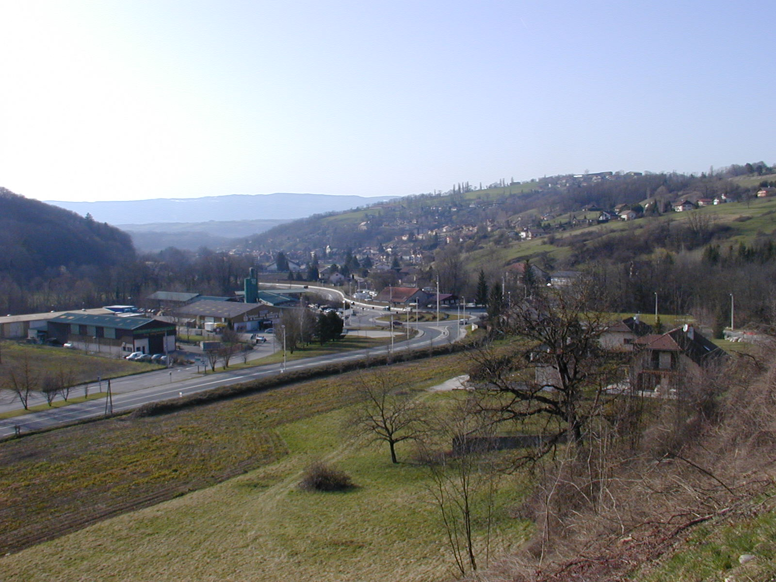 Little town of Frangy, Haute-Savoie, France.